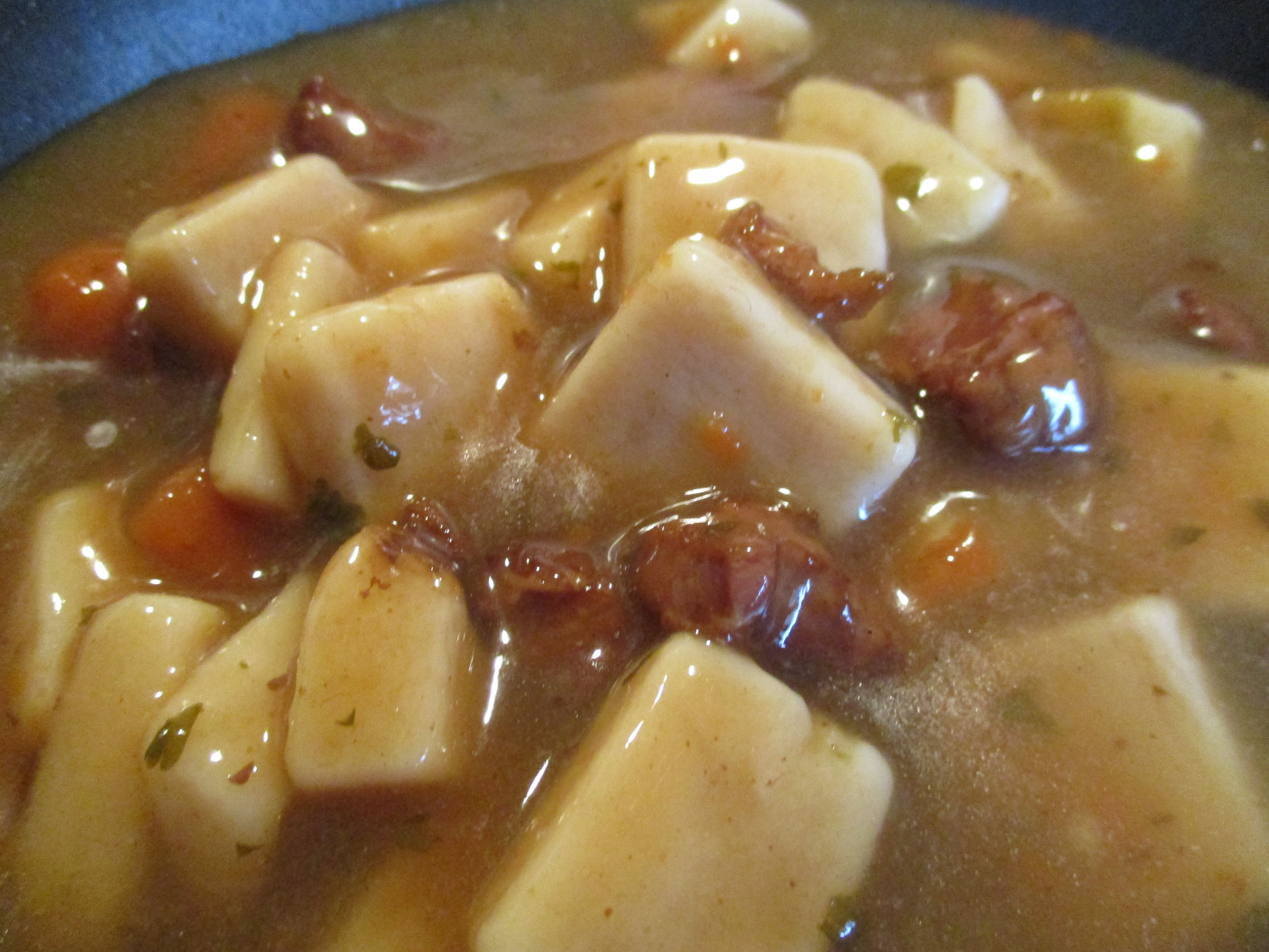 unheated, on stove